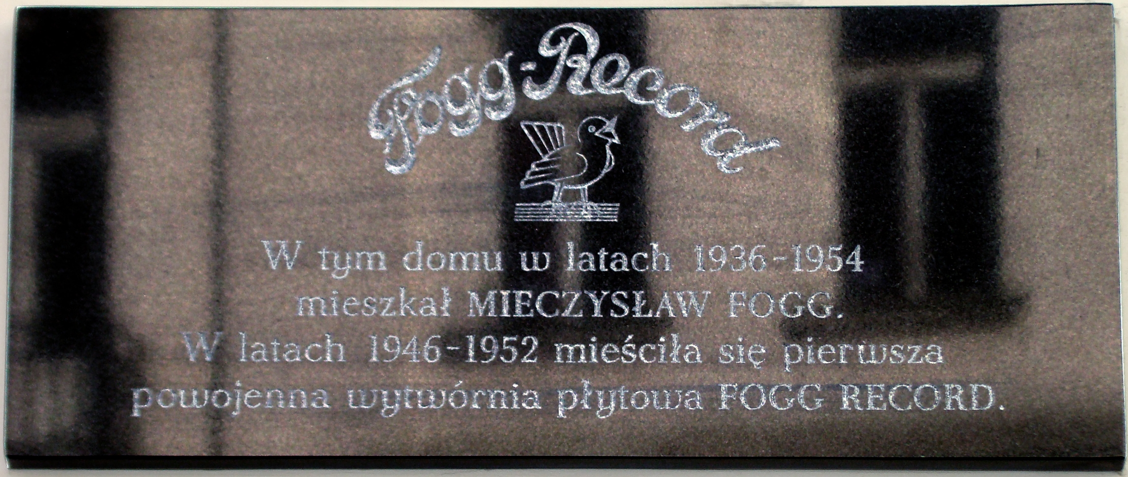 Mieczysław Fogg memorial plate